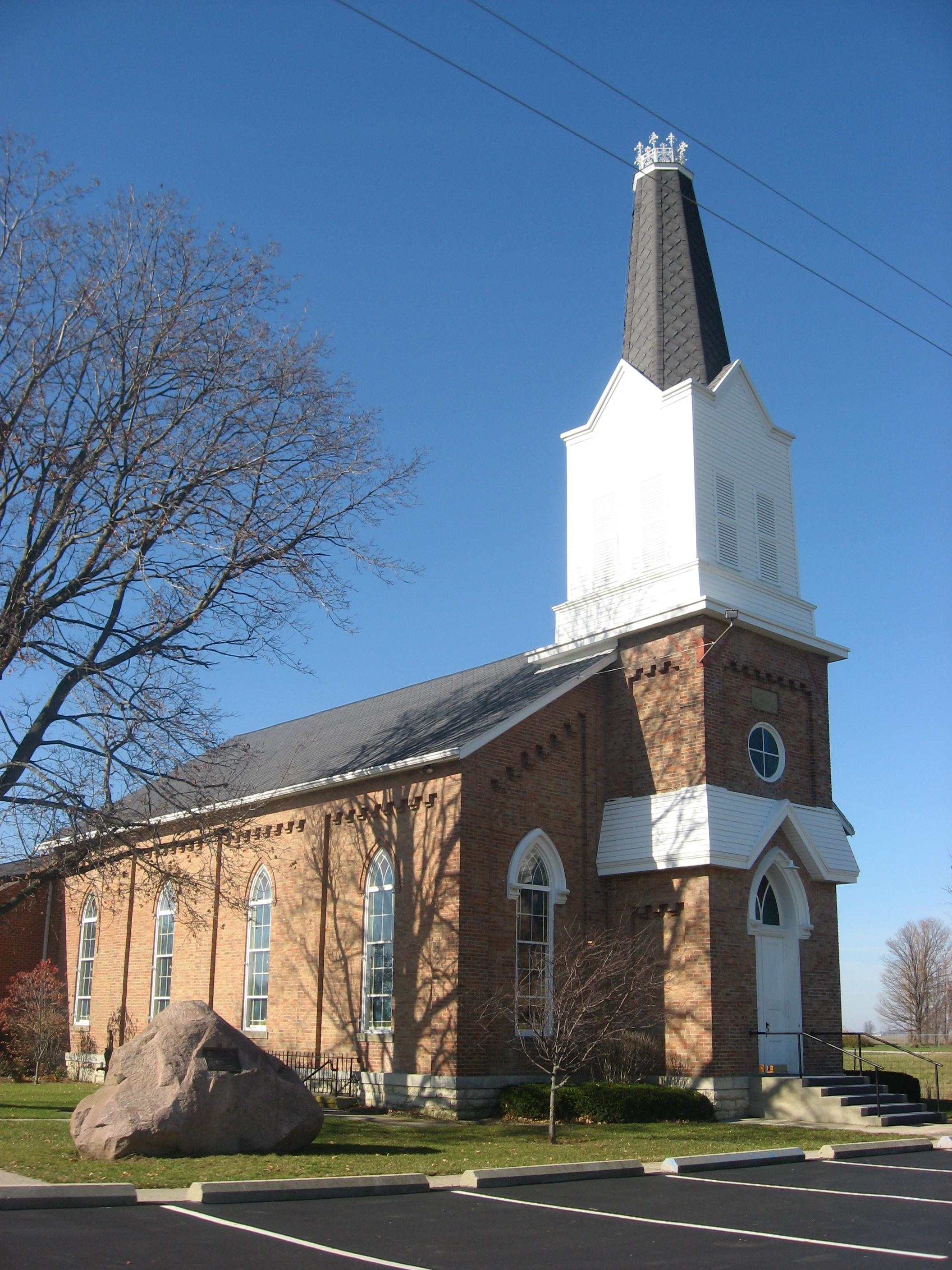 Southern side and front of the Concord United Church of Christ, located at 2225 Concord-Fairhaven Road in Dixon Township, Preble County, Ohio, United States. It was built in 1881.